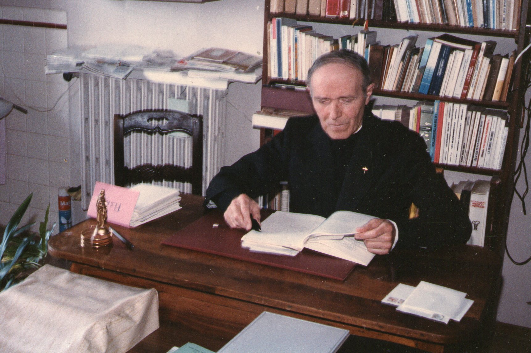 Vittorio Baroni